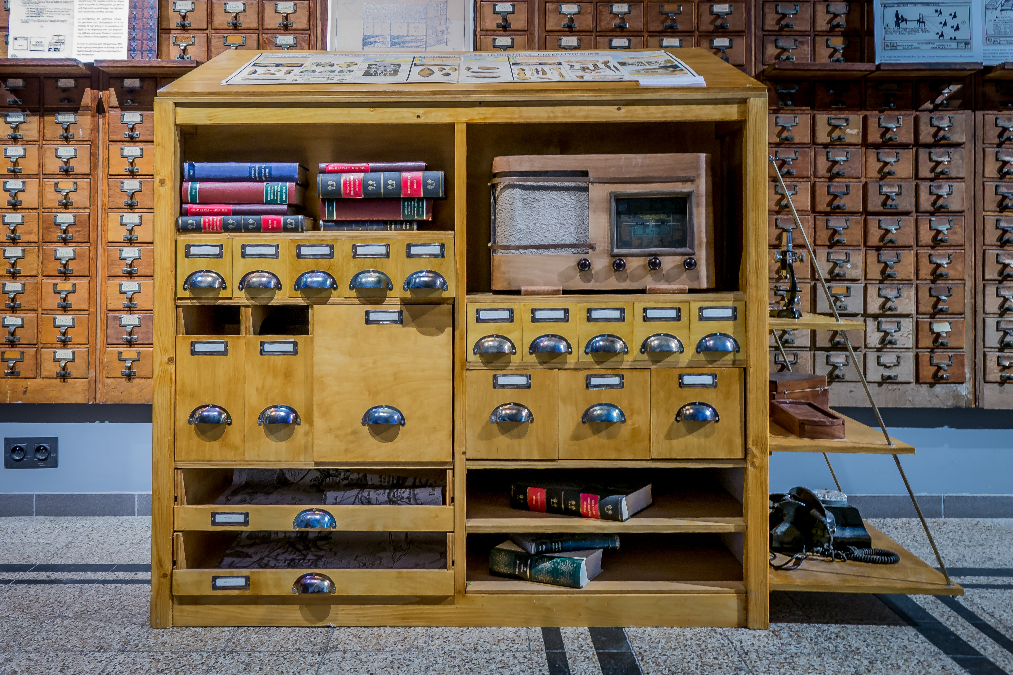 This is a file created at the museum: Mundaneum in Mons